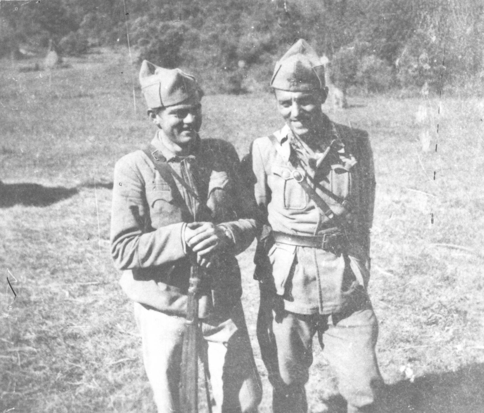 Nikola Demonja, komandir i Vlado Mulak, politički komeras banijske partizanske čete.